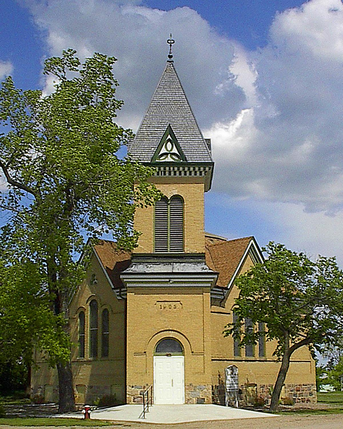 the knox united church located in abernethy saskatchewan.